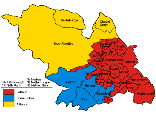 Ward map of Sheffield Council with political colouring for the 1987 election.